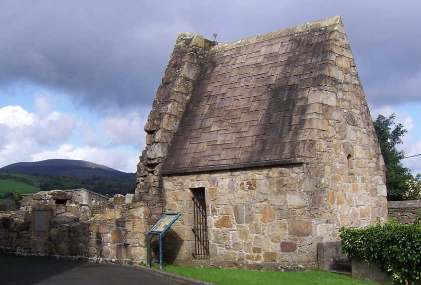 St Lua's Church. Moved from Friar's Island in the Shannon below Killaloe to the grounds of the Catholic Church when the island was flooded in the 1920's.